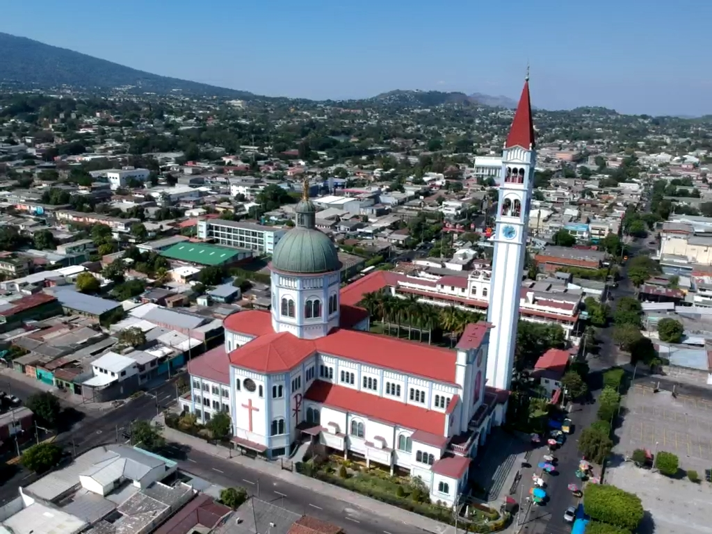 Maria Auxiliadora